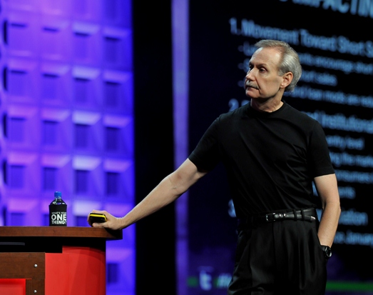 Gary keller at a book event